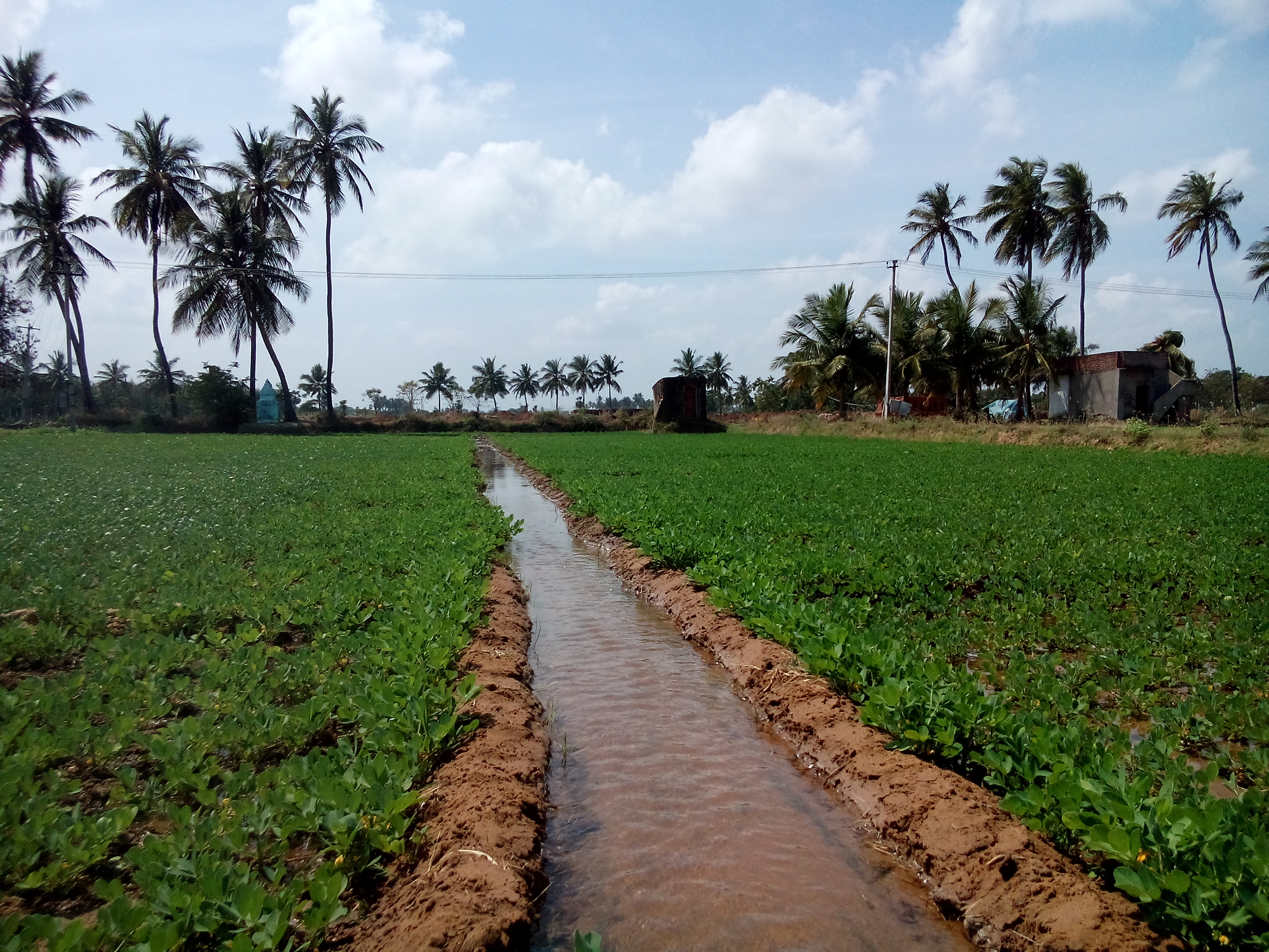 peanuts ditch irrigation